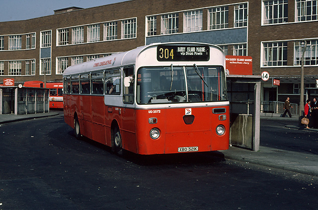 Cardiff Bus Station The bus station, known as Wood Street, opened in 1954. This view from 1980 shows the curved stands and the main terminal building. I believe that the curved stands were replaced with straight through stands sometime in the 1990's. The main terminal building was demolished in 2008 as part of a redevelopment of the area. The bus is a Cymru Cenedlaethol (National Welsh) Leyland Leopard with Marshall bodywork.